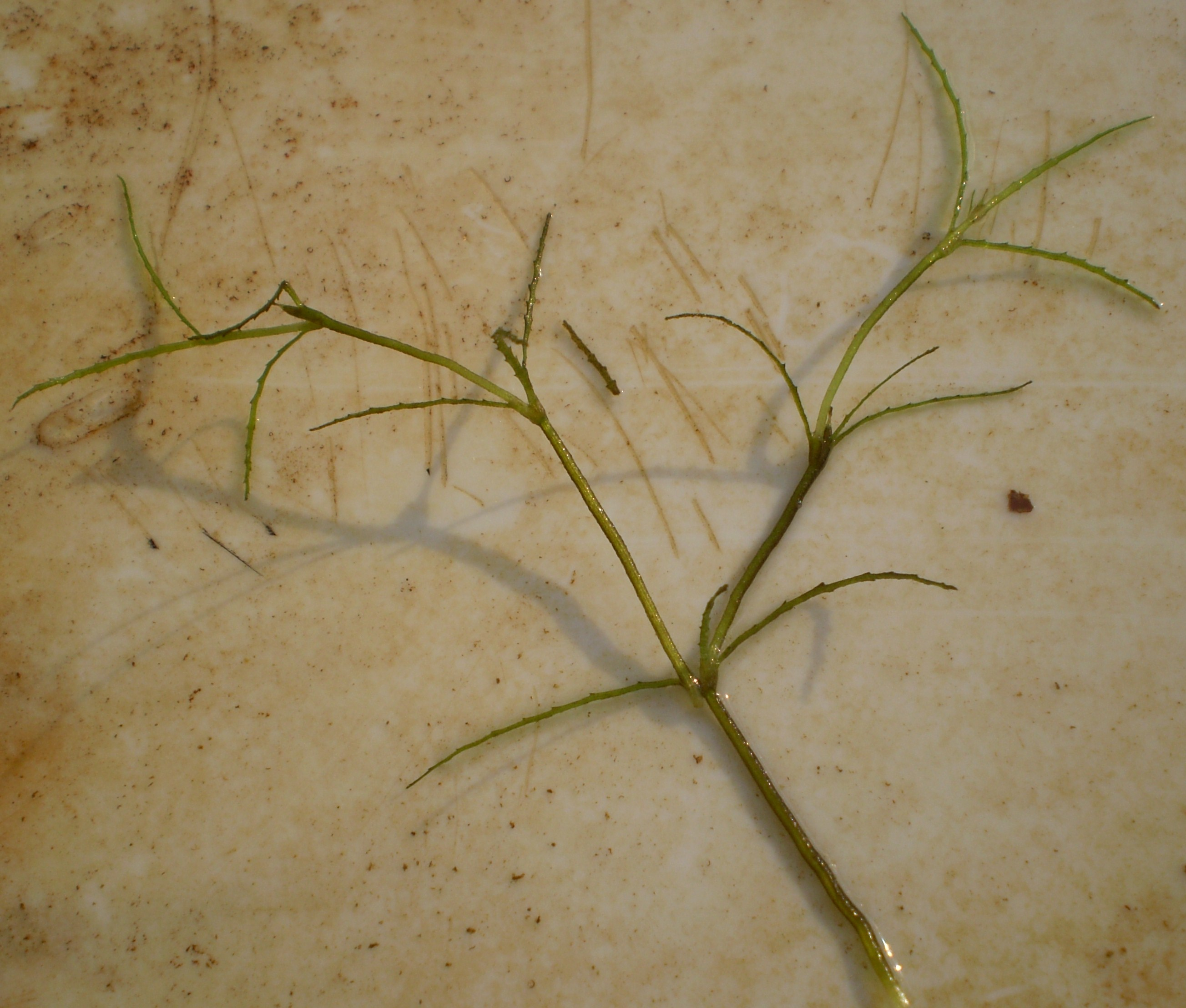 Najas foveolata（Najas indica）